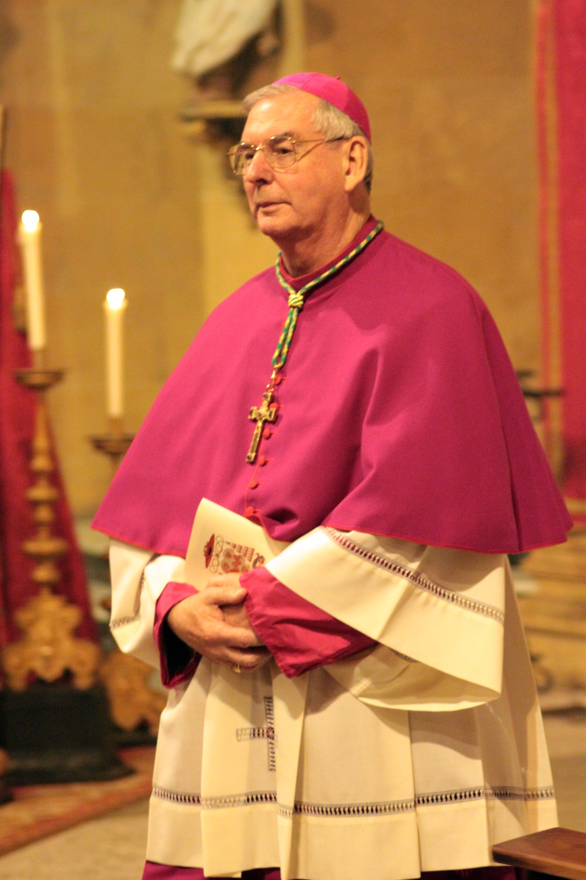 Philip Pargeter, Auxiliary Bishop Emeritus of Birmingham